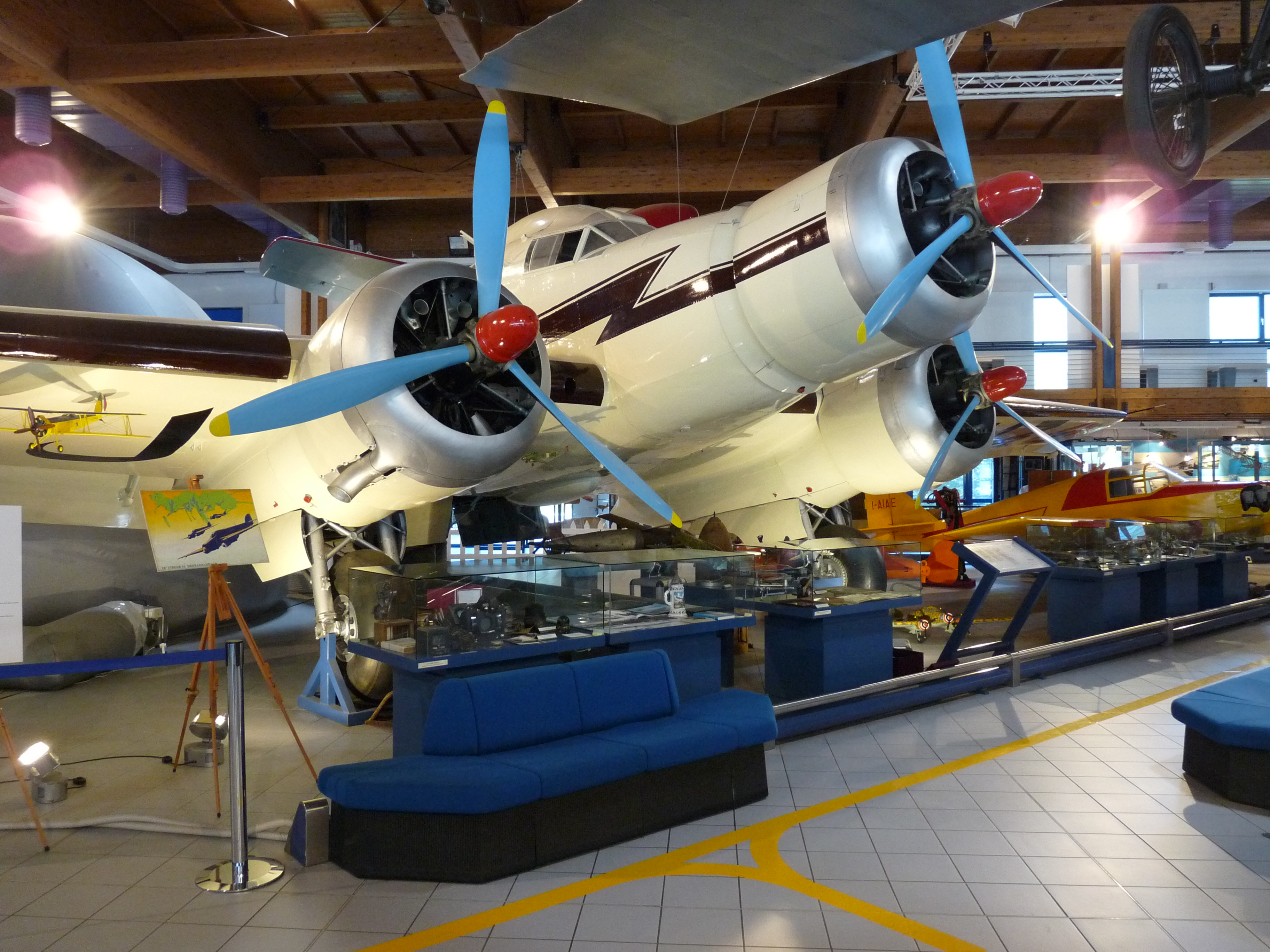 Trento (Italy): main hangar of the Museum of Aeronautics Gianni Caproni.